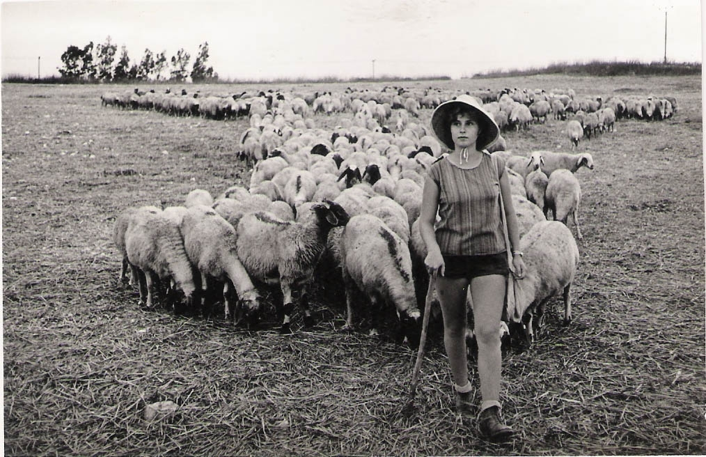 Settlements in Israel